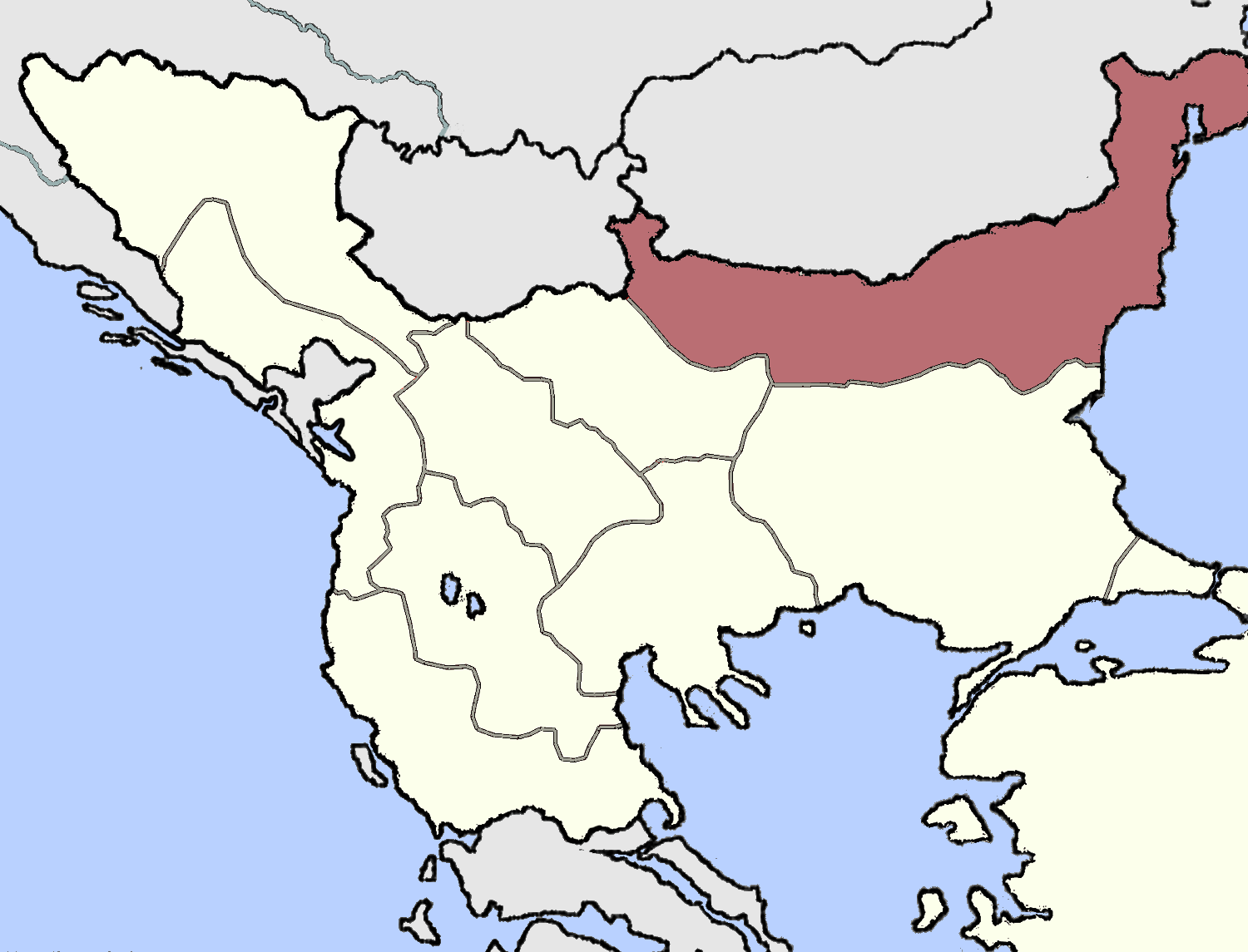 XY Vilayet, Ottoman Empire (1860s). Source: The Balkan Economies c.1800-1914: Evolution without Development at Google Books By Michael R. Palairet